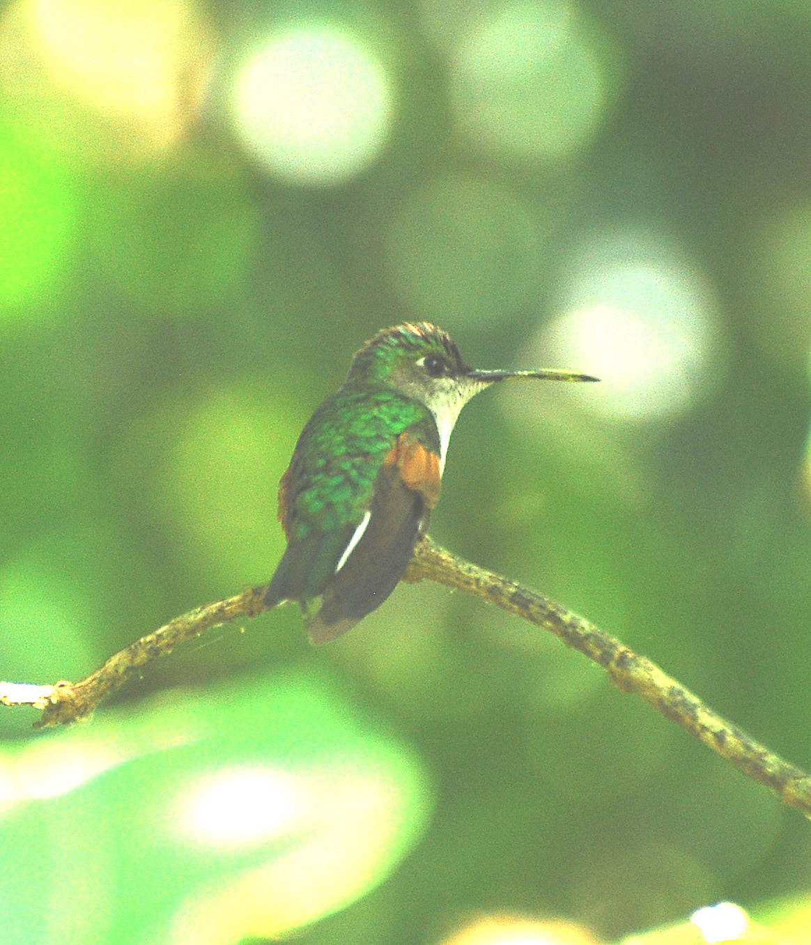 Blue-capped Hummingbird female or juvenile (Eupherusa cyanophrys) along Constancia Road, the trail above Rancho Dioon, Mexico.